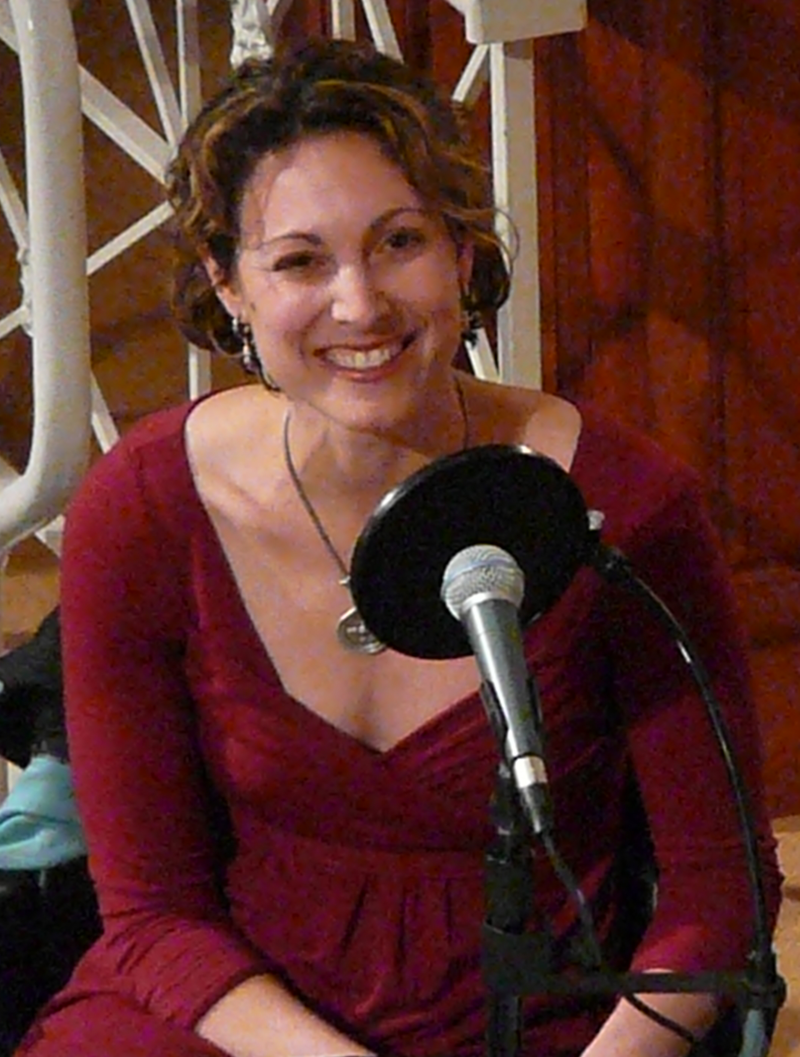 American journalist Emily Bazelon at Slate Political Gabfest in Washington D.C.